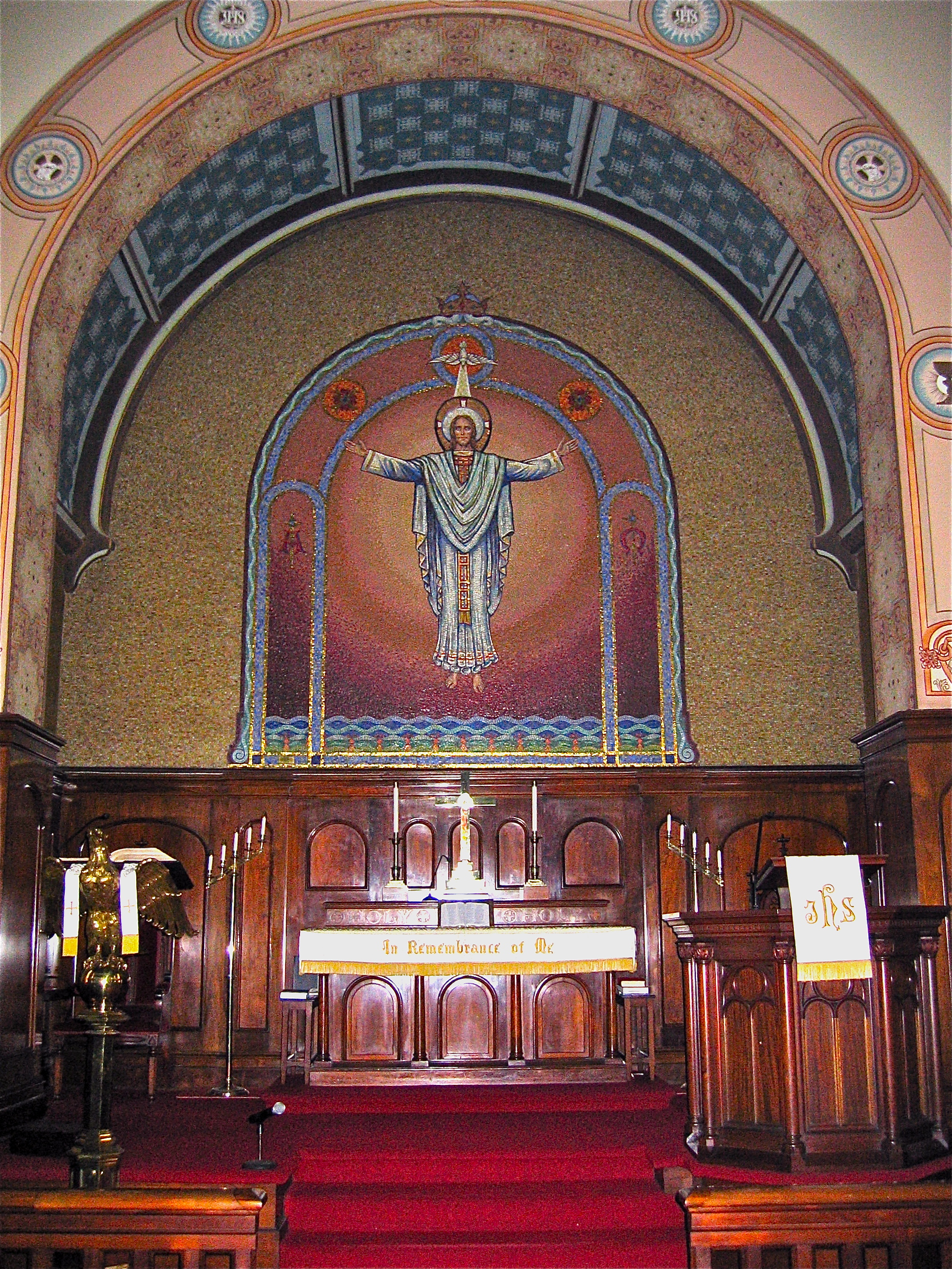 "Ascending Christ" mosaic art work over the altar in the sanctuary of Zion Reformed United Church of Christ.